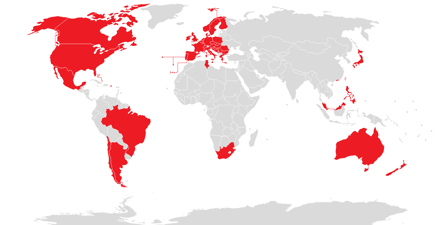 Countries which have regions available in Google Earth as a three dimensional model